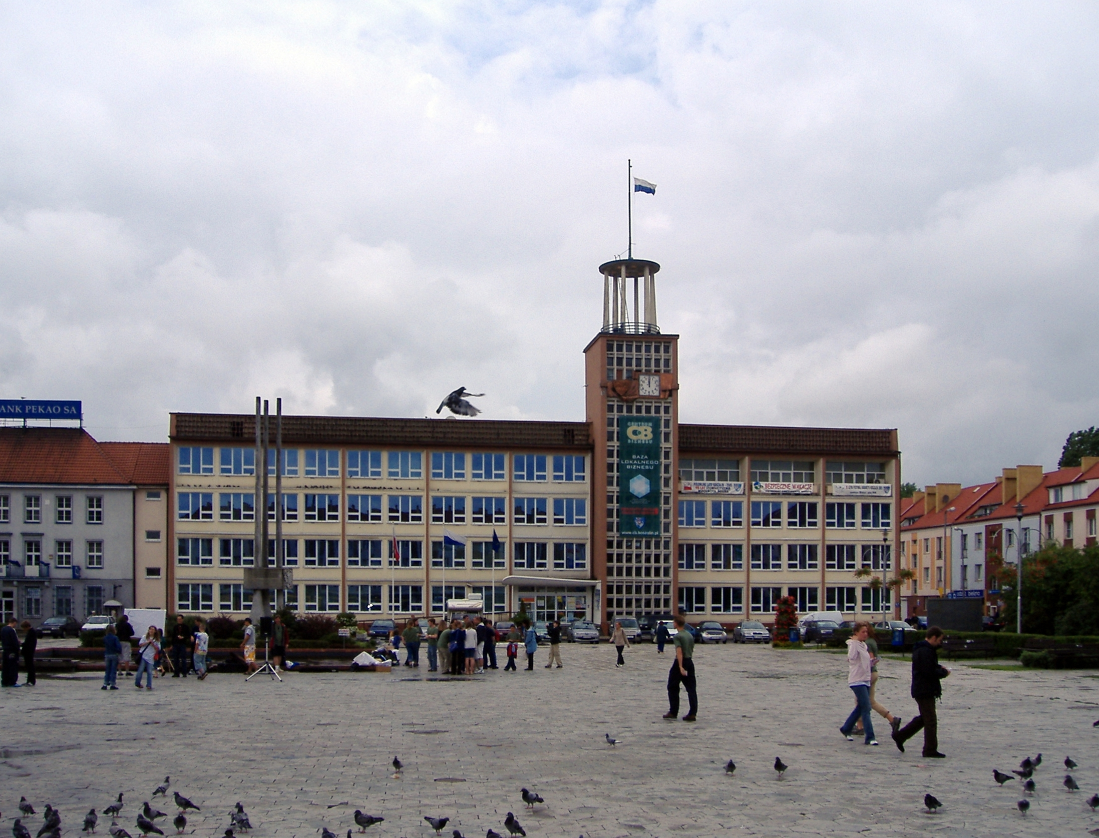 City Hall in Koszalin